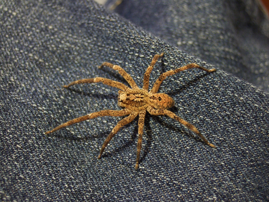 Might be a Zoropsis spinimana.